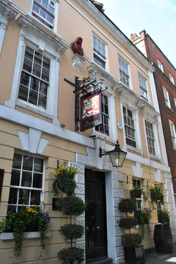 Gateway from Devereux Court